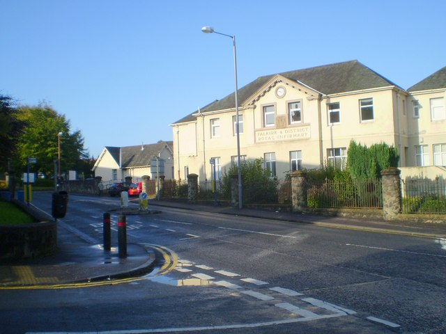 Original building Falkirk Royal Infirmary This is the oldest part of the hospital. It is now used for administration. The building on the far left is the Diabetic Clinic.